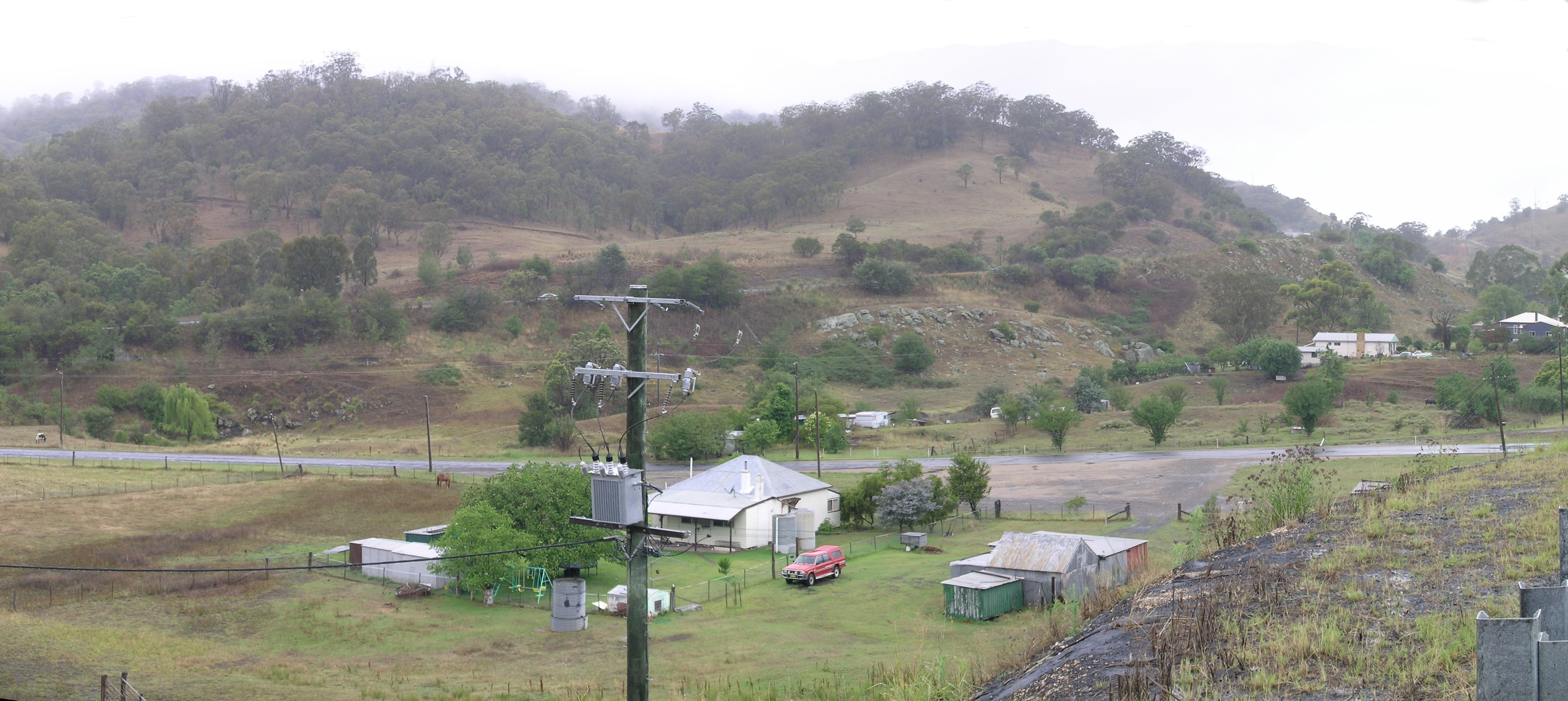 Ardglen, New South Wales, with Nowlands Gap in the upper right.